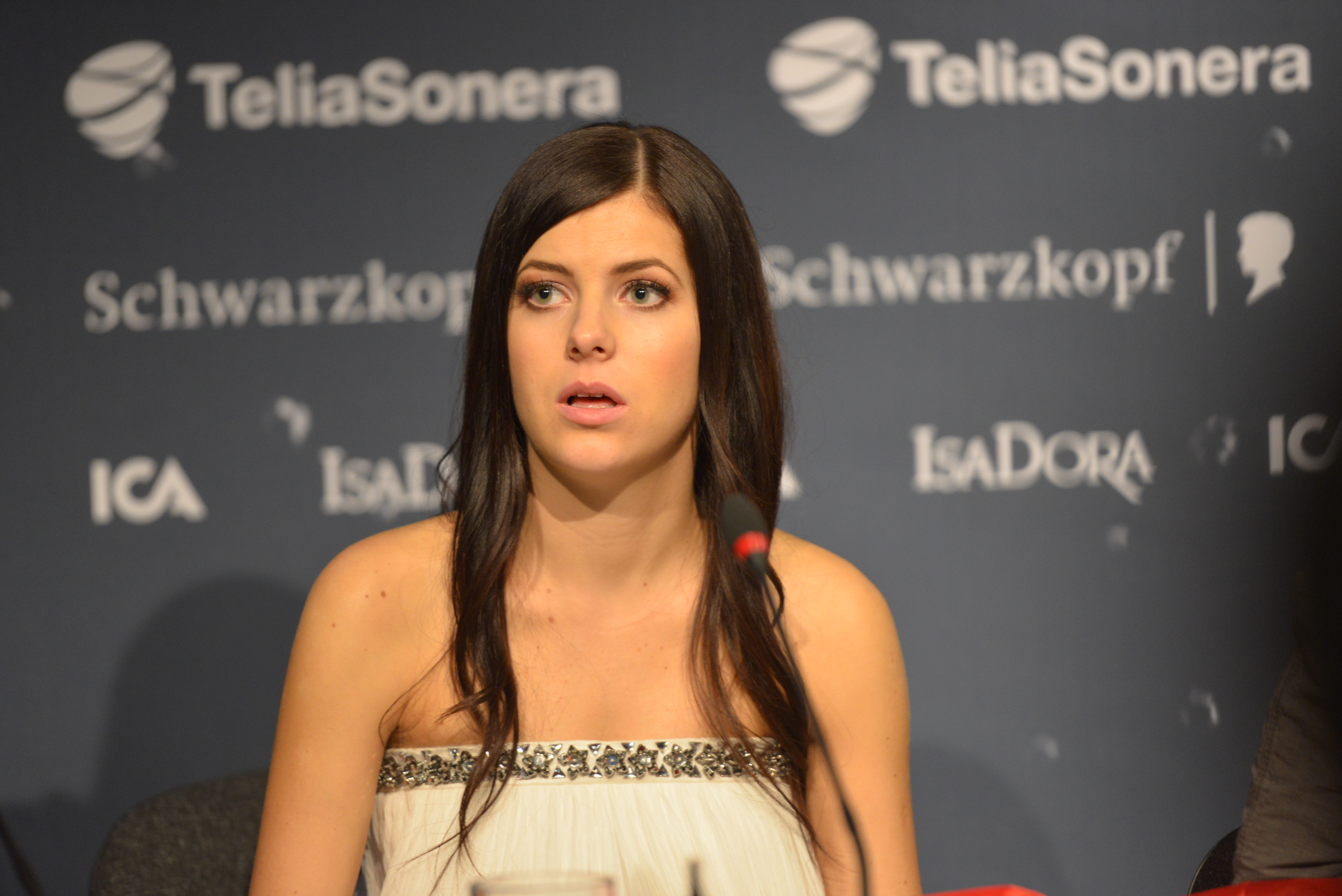 Birgit Õigemeel at a press conference during the Eurovision Song Contest 2013 Malmö. (Help translate this text)